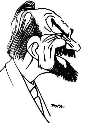 Caricature of the Romanian poet and playwright D. Nanu.